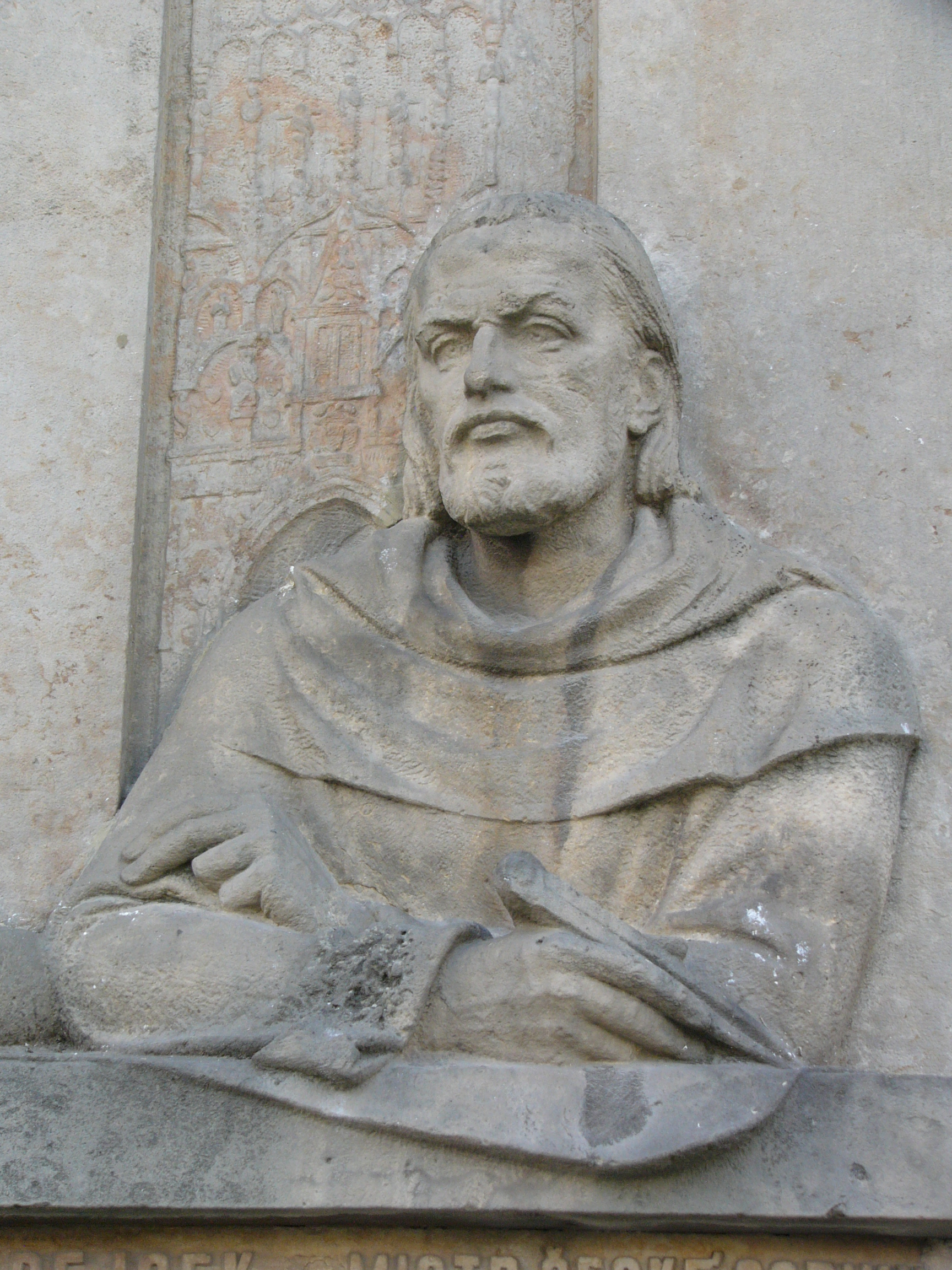 detail of memorial plaque of Czech architect Matěj Rejsek at New town hall in Prostějov